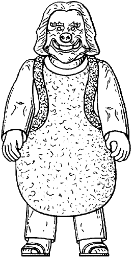 Illustration of an Ugnaught action figure